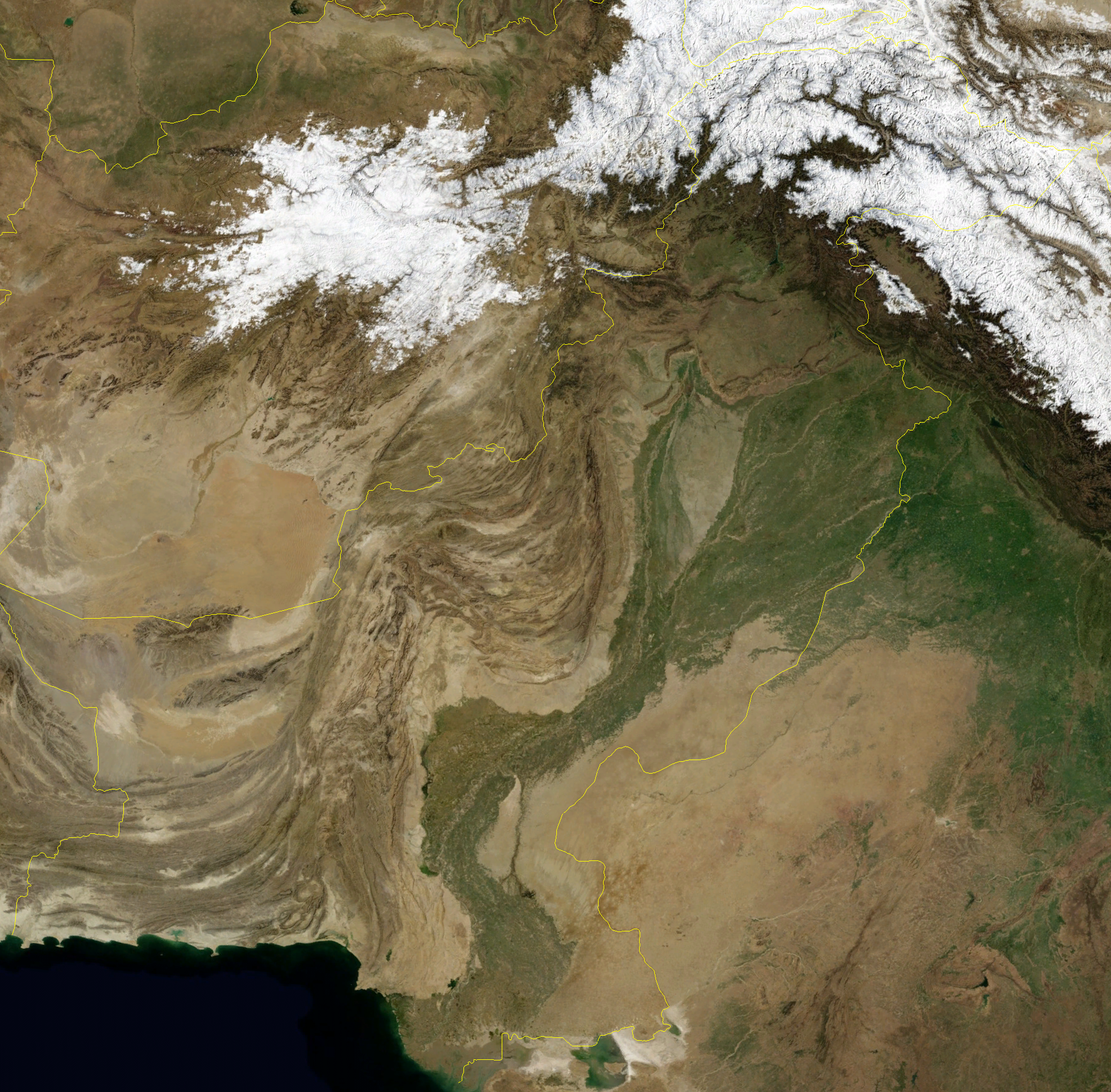 Satellite image of Pakistan in January 2004. Blue Marble Next-Generation image.